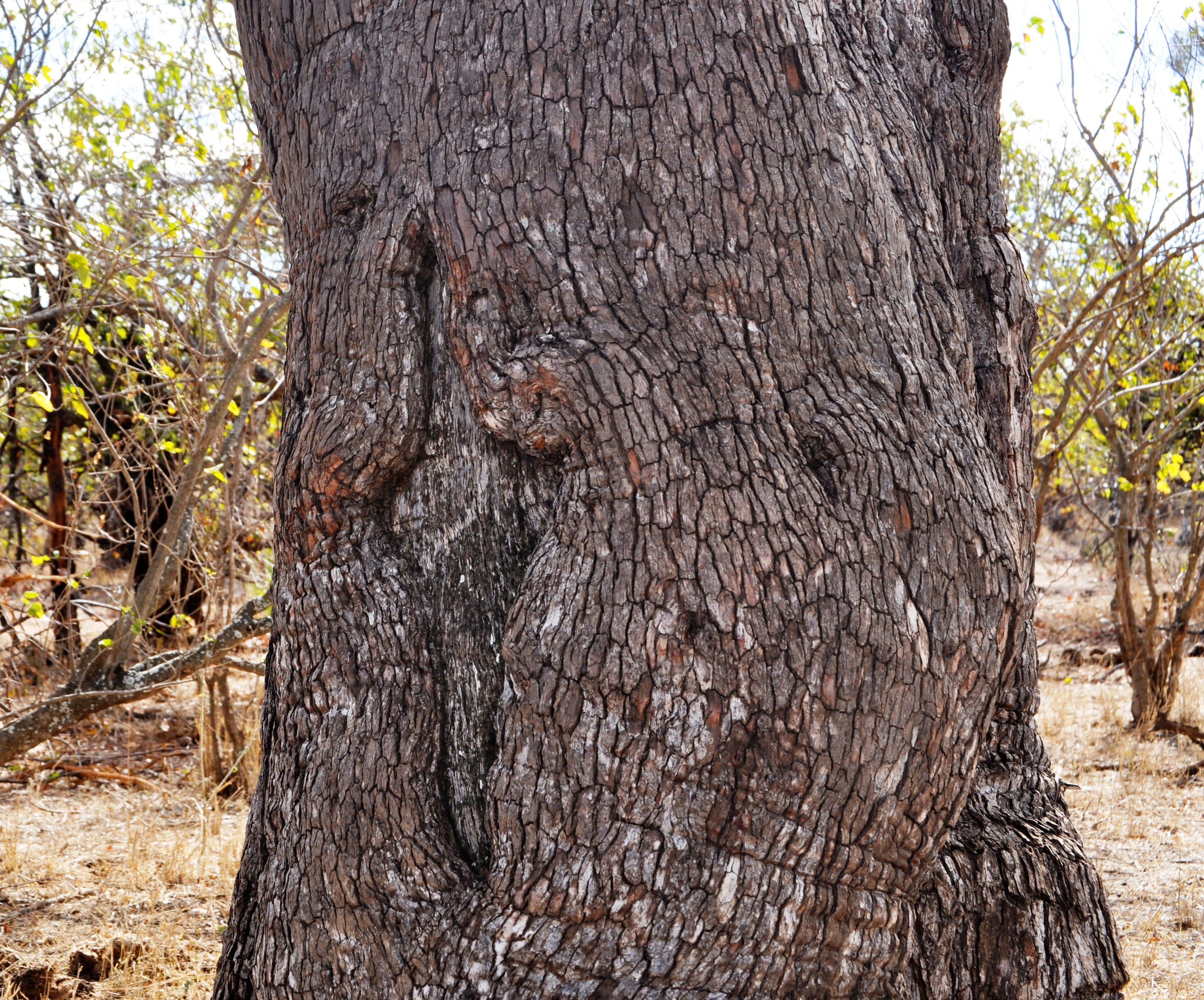 A Portuguese cross, carved by 19th century travellers on a Leadwood tree on the bank of the Letaba river, beside the S95 road near Letaba camp, Kruger National Park. It may have been carved by a hunting party of D. F. das Neves who travelled from Lourenço Marques through the current Kruger National Park to the Zoutpansberg in 1860/61. Or it may have been carved by one of the Portuguese soldiers who carried post for João Albasini between Lourenço Marques and Goedgewensch, Zoutpansberg.[1] ↑ Joao Albasini. Kruger Park History Information. Siyabona Africa. Retrieved on 28 October 2013.